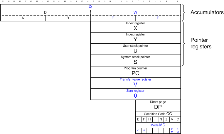 The 6309 programming model, outlining register sizes and concatenation.